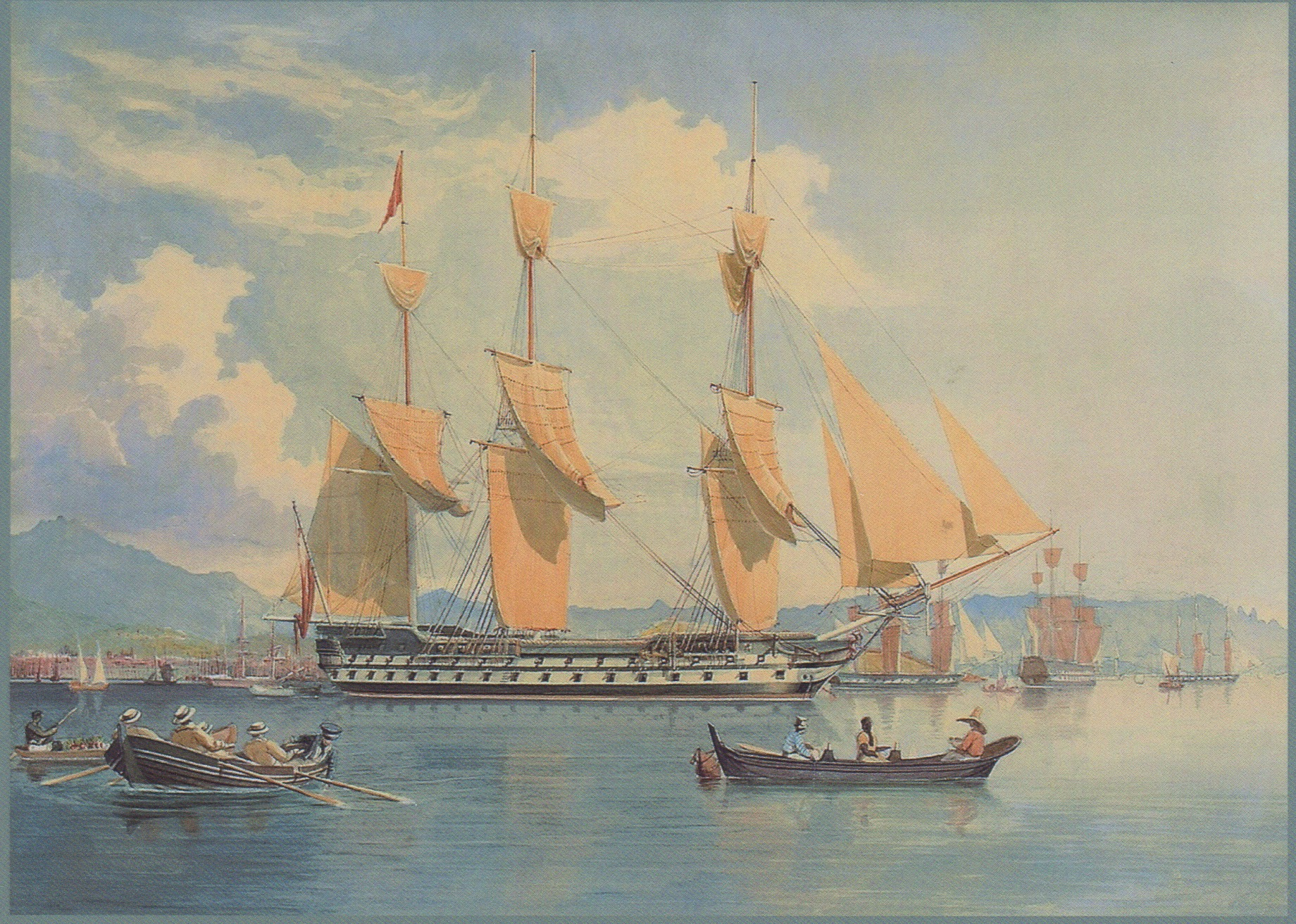 A member of the South American squadron based on Rio de Janeiro dries her sails. By Emeric Essex Vidal (1791-1861)